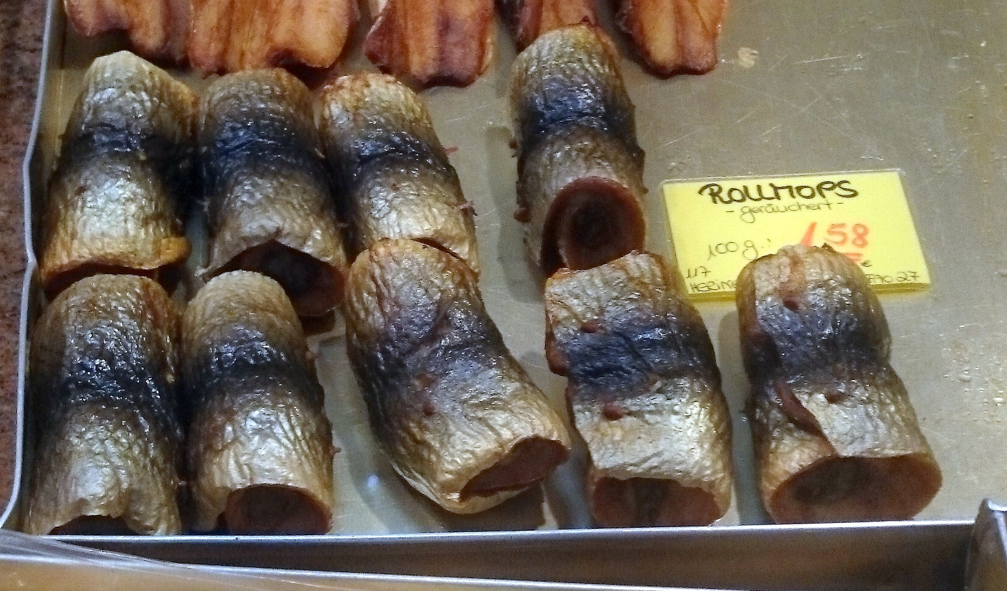 "Rollmops" hering in a Büsum, Germany shopwindow